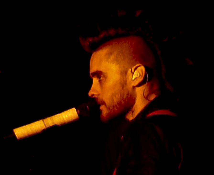 Jared Leto performing A Modern Myth in Nottingham on 19th February 2010.